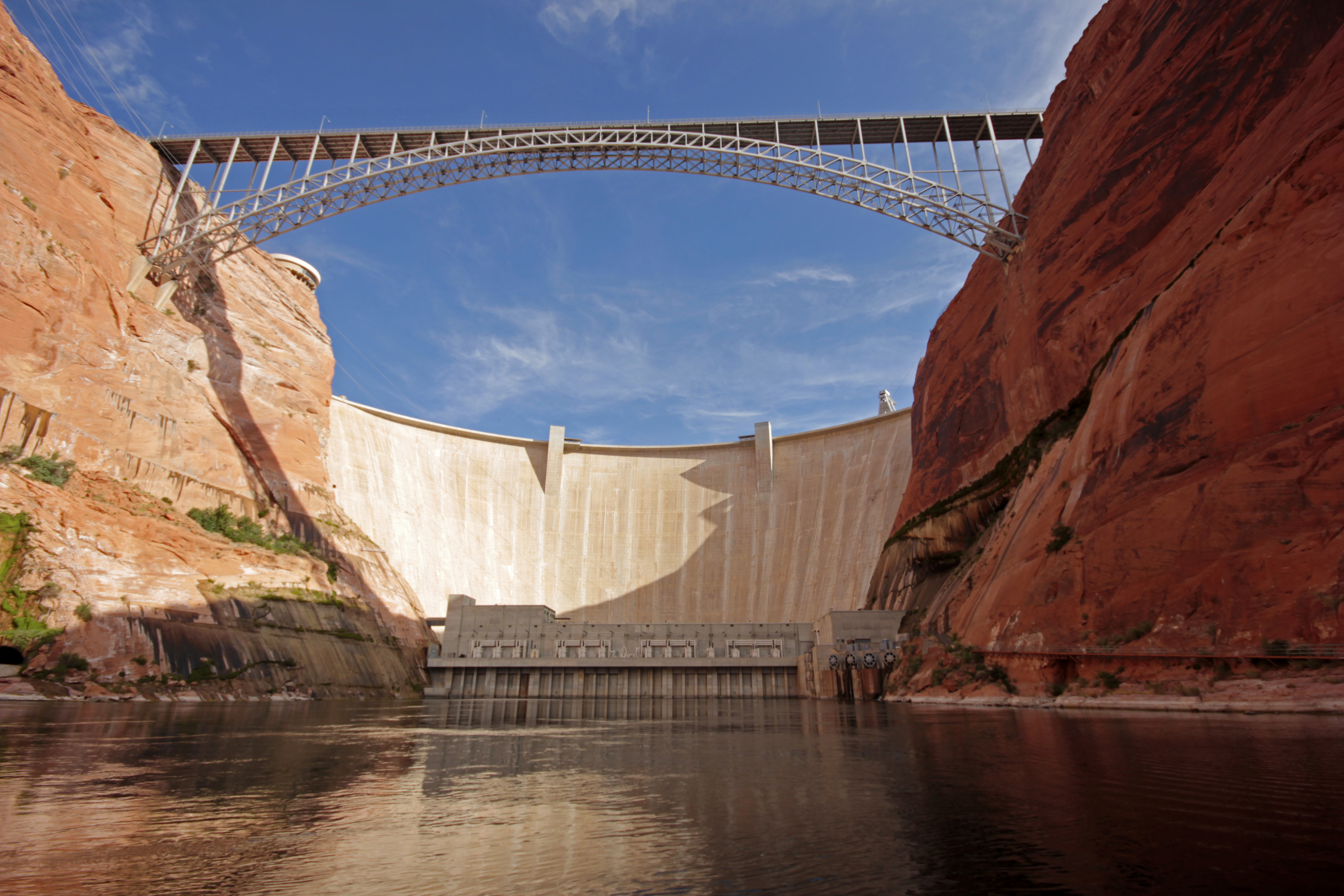 I took a calm water rafting trip down Glen Canyon just outside of Page, Arizona. Glen Canyon Dam and looking up at the bridge.